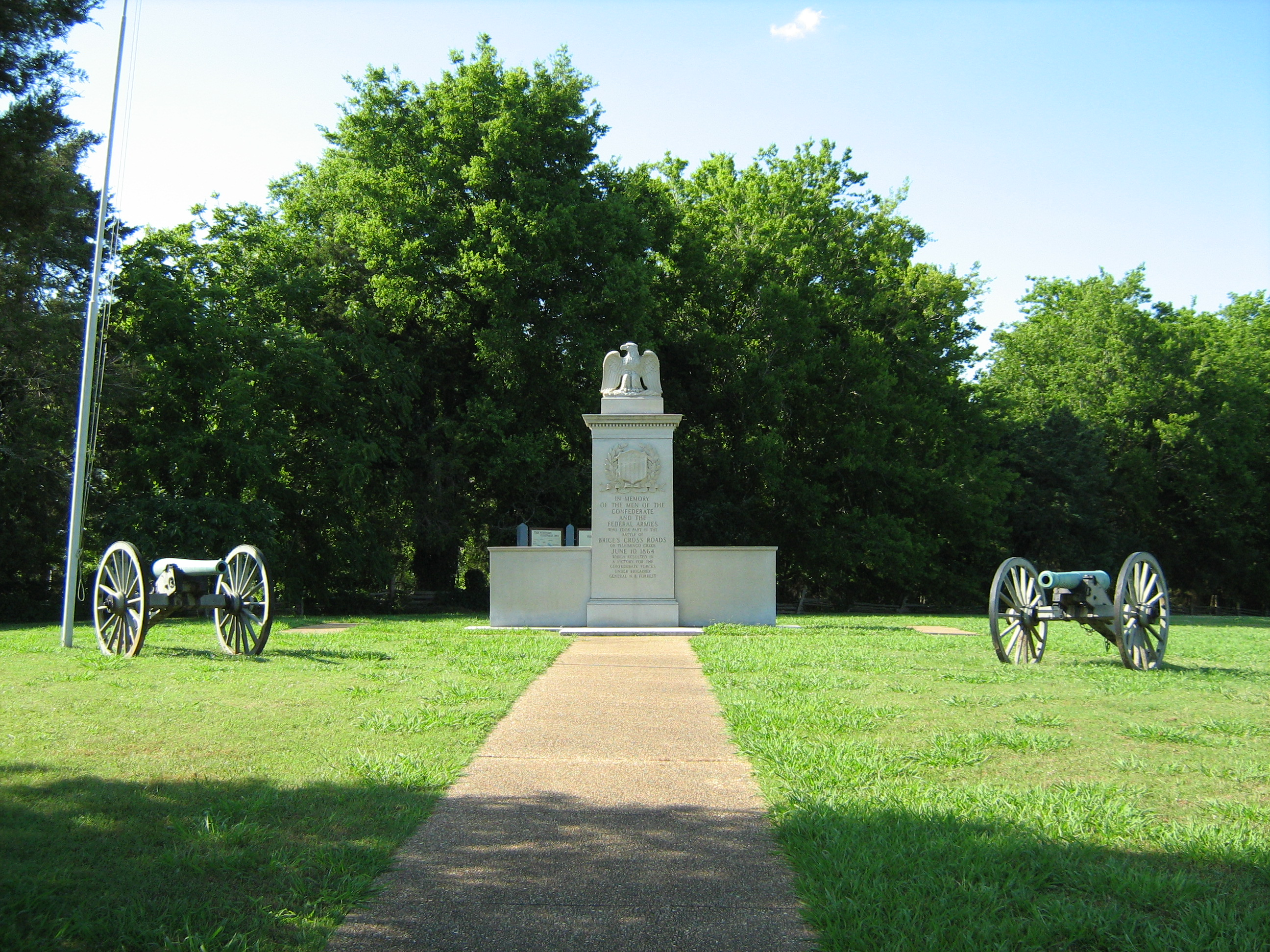 Brice's Cross Roads National Battlefield Site, Lee County, Mississippi.